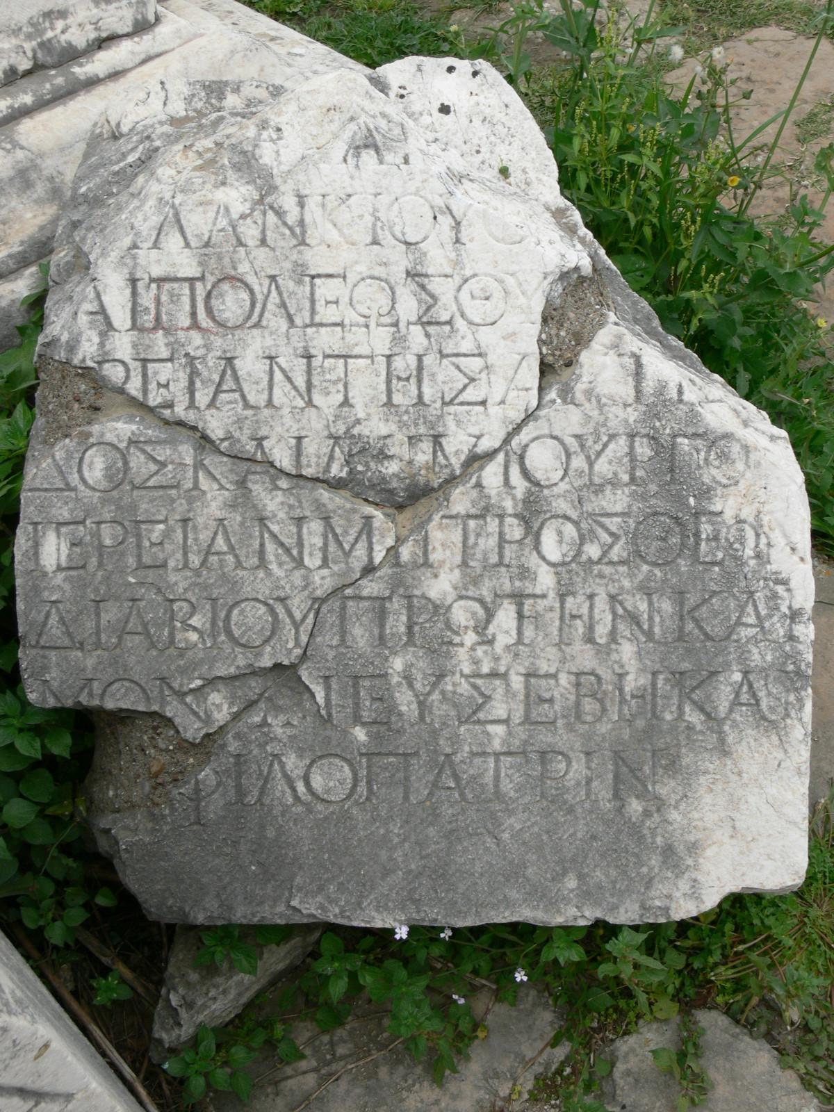 Perge ( Antalya/Turkey ). Greek dedication inscription from Plancia Magna( 120 AD ).